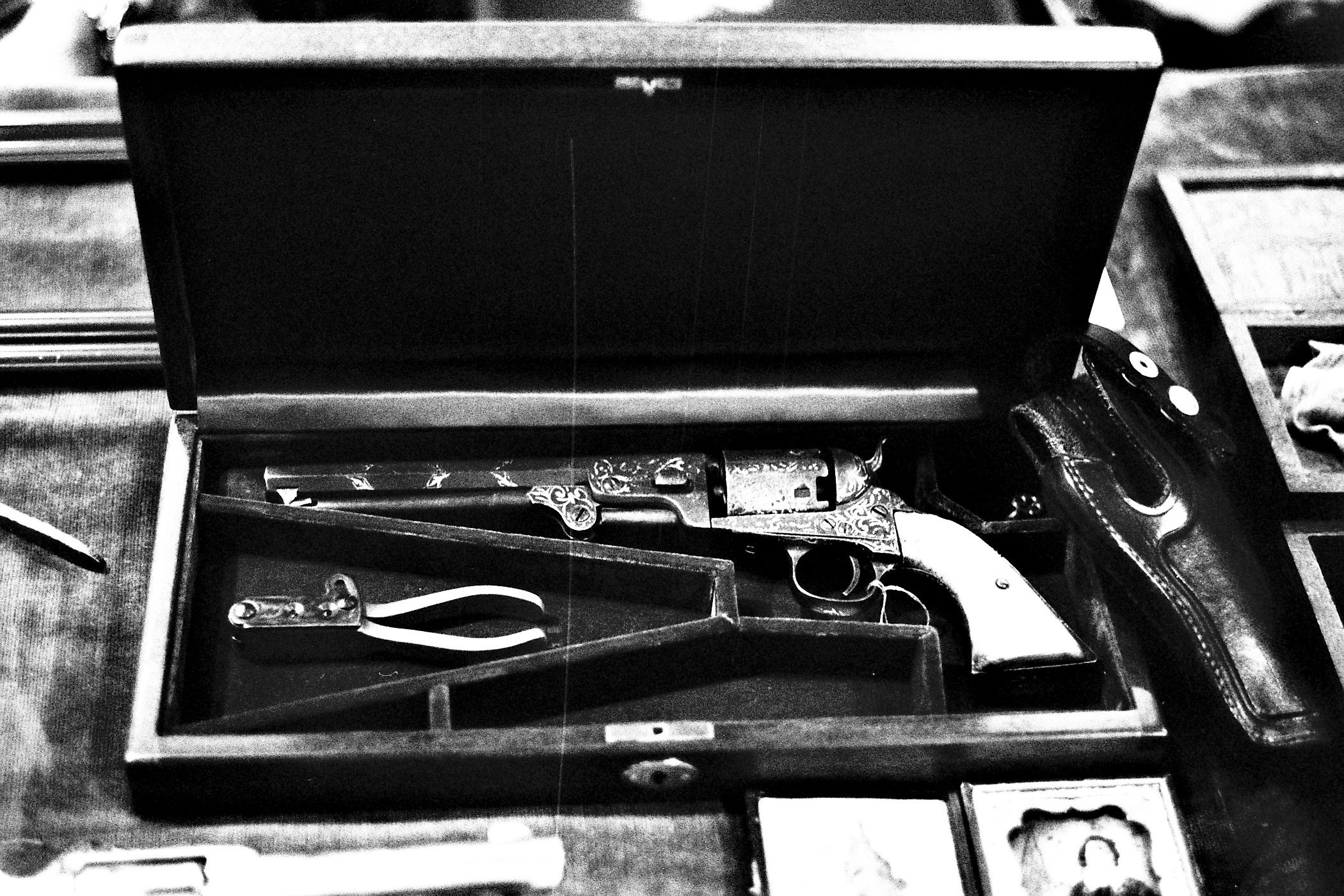 This Revolver is not a Colt Army, but a Navy or Belt Model. The reverse grips acclivity is typic for Belgian Colt copies.